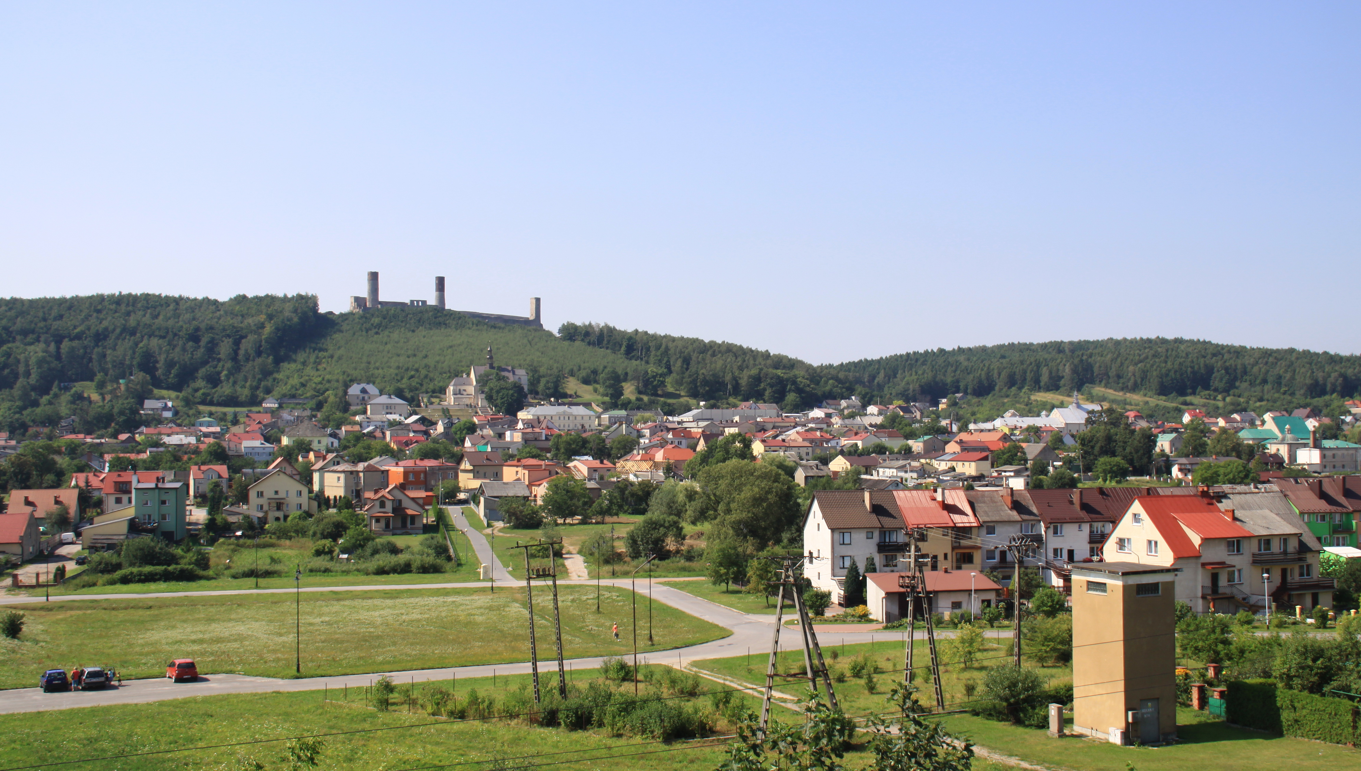 Chęciny - a view from the north of the town and castle.